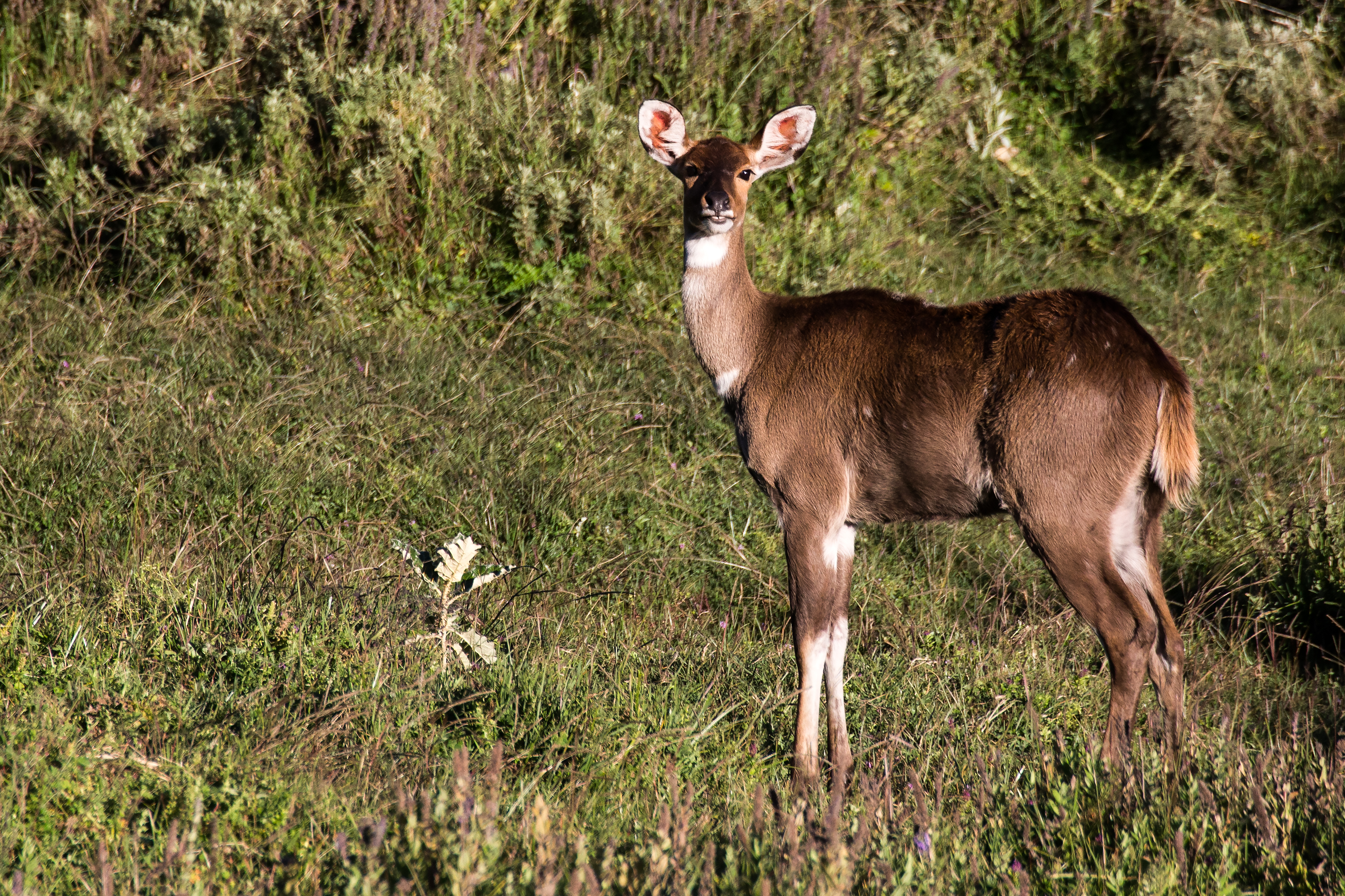 Mountain nyala in Ethiopia